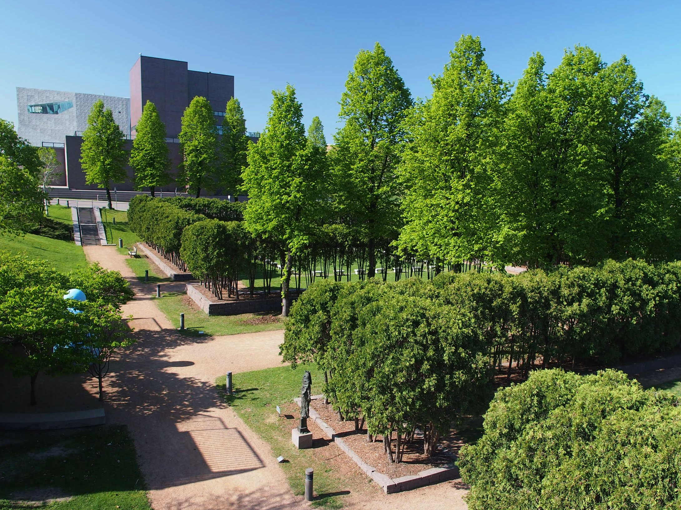 Minneapolis Sculpture Garden and the Walker Art Center from the Irene Hixon Whitney Bridge, Minneapolis, Minnesota, USA.